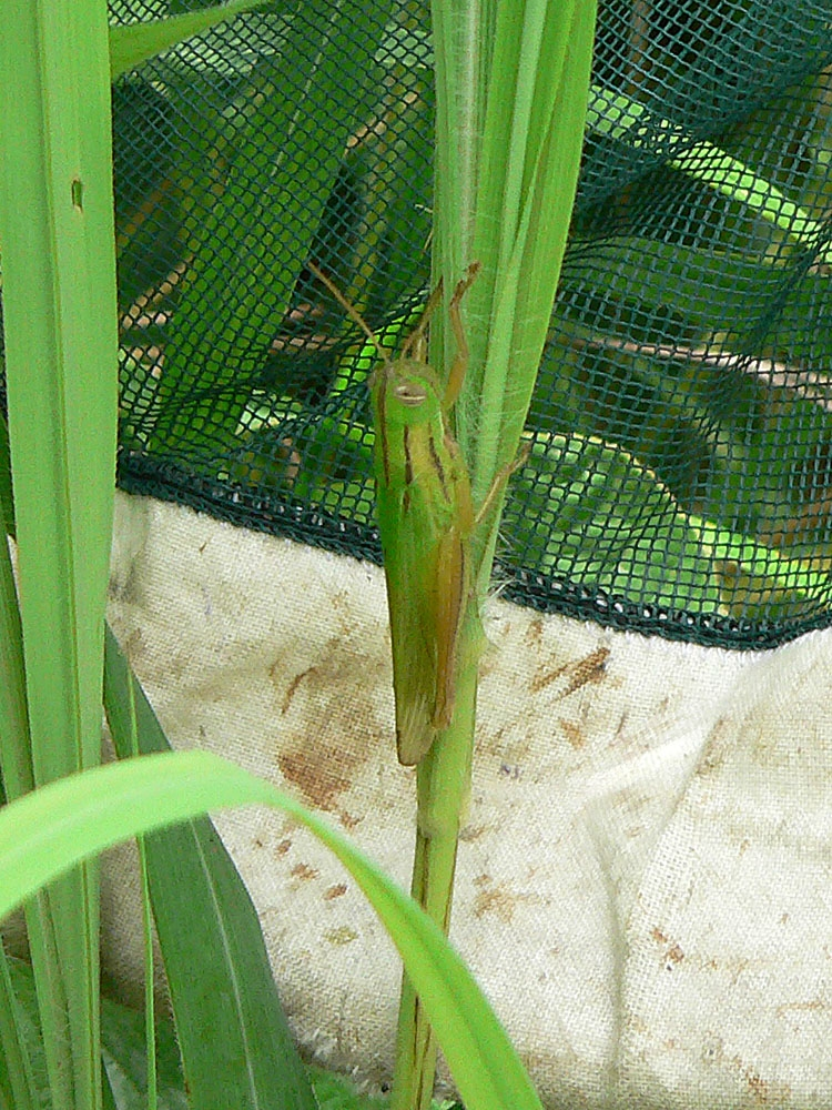 Chloroxyrrhepes virescens photographed near Bembereke, Benin.